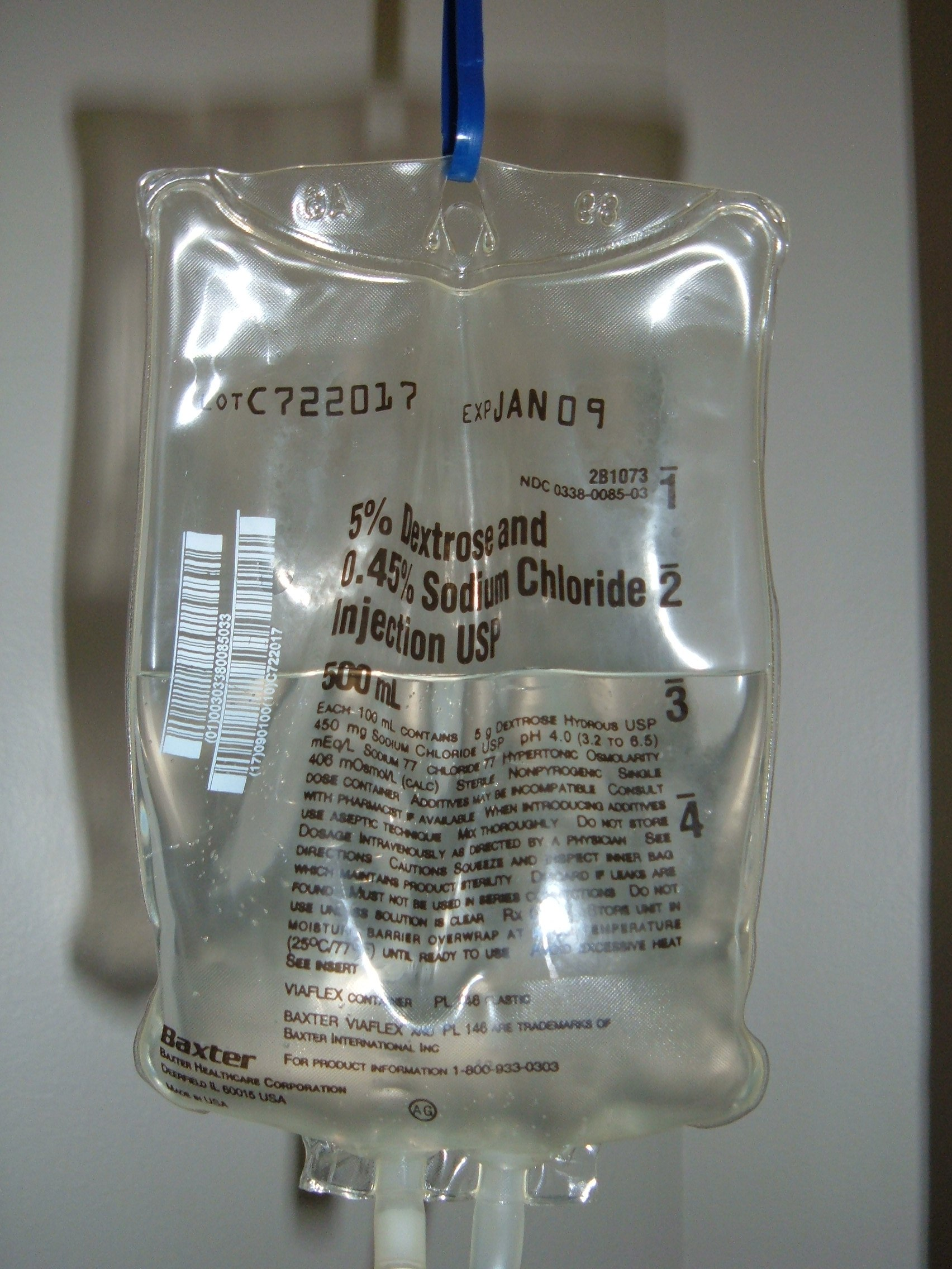 Baxter 5% dextrose and 0.45% sodium chloride injection USP deployed on an IV pole.